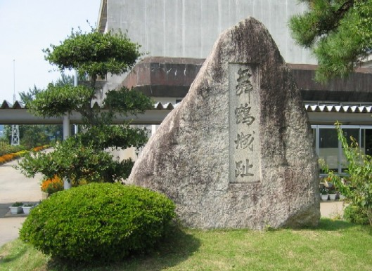 Stone monumento of Ota castle(Maizuru castle) in Hitachiota, Ibaraki, Japan.